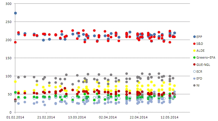 EU wide Polls